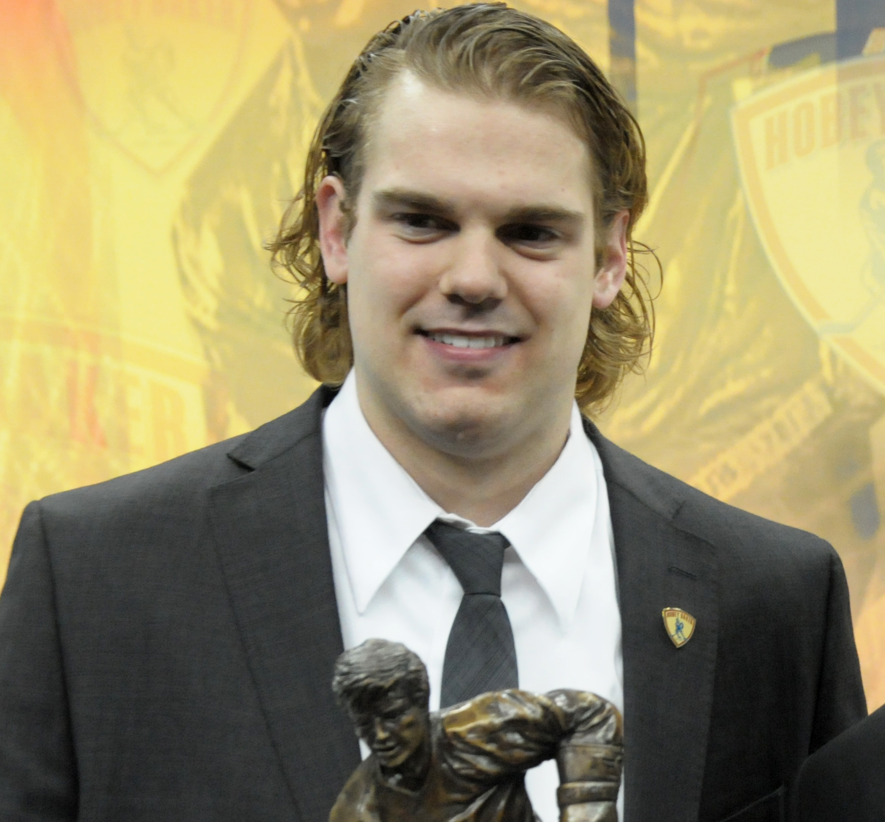 2013 Hobey Baker Award winner Drew LeBlanc (left) with Hobey Baker committee chairman Hans Skulstad. LeBlanc was a senior forward from St. Cloud State University.